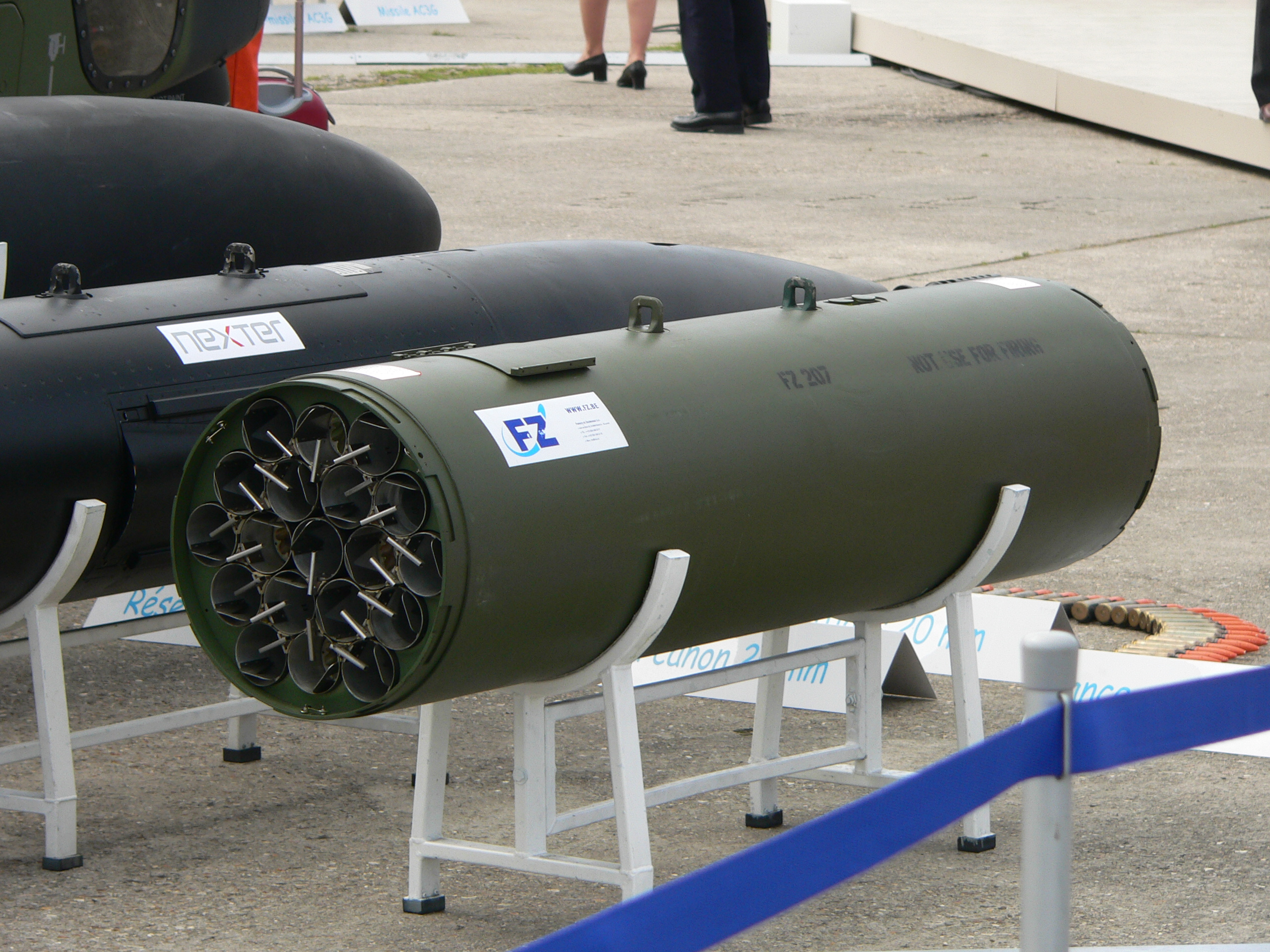 FZ-207 rocket launcher for helicopters (zoomed)